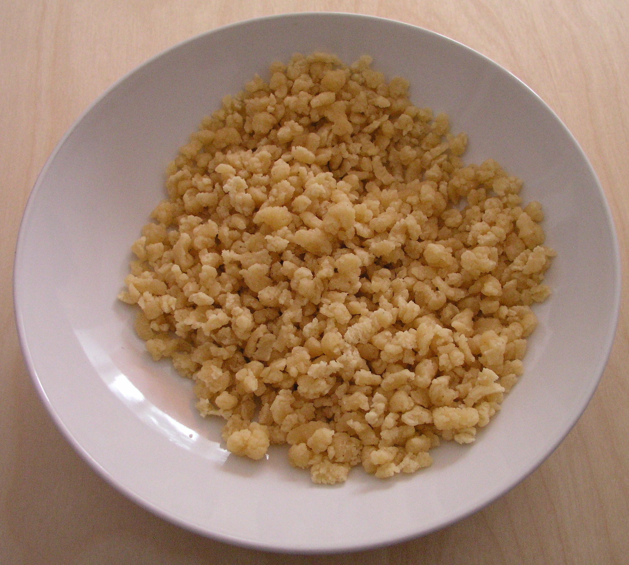 Dried Tarhonya (Hungarian kind of pasta).